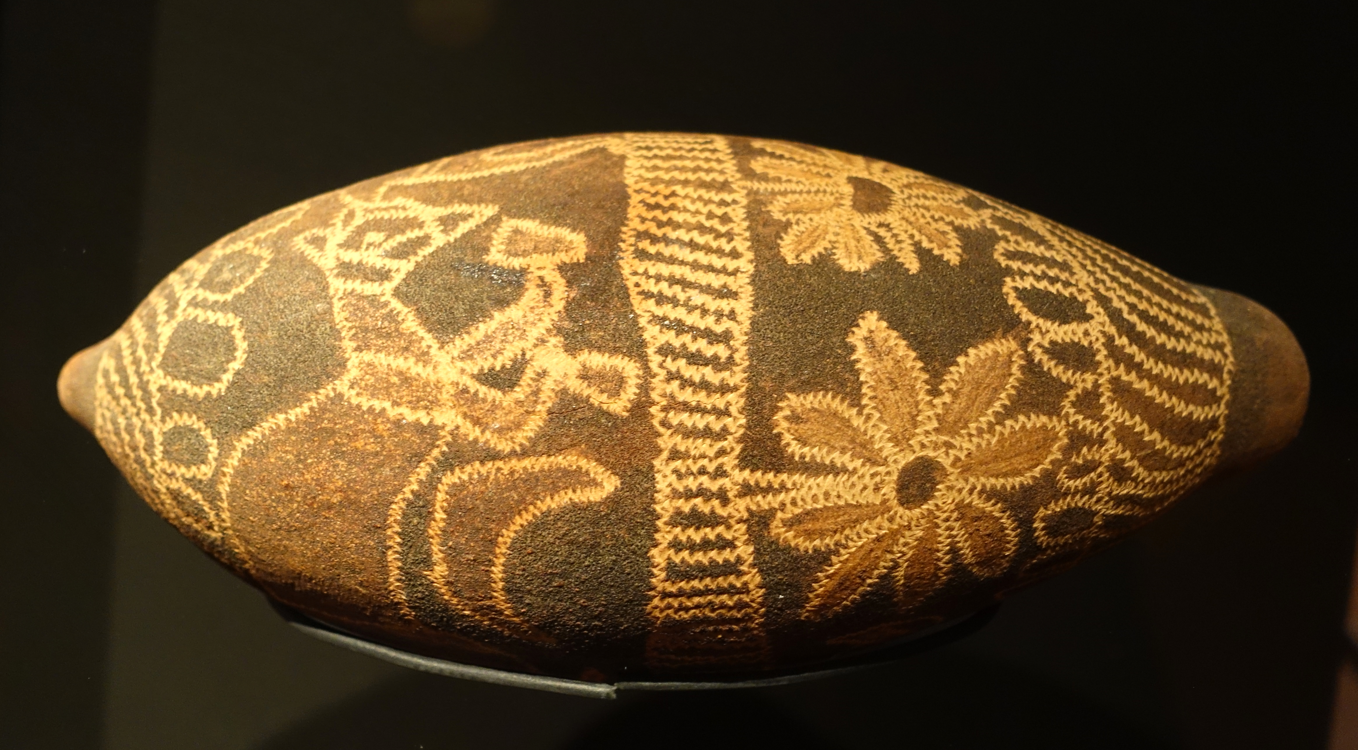 Exhibit in the Etnografiska museet, Stockholm, Sweden. This work is old enough so that it is in the public domain.